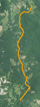 Satellite map of Lewis Run. Data available from U.S. Geological Survey, National Geospatial Program.